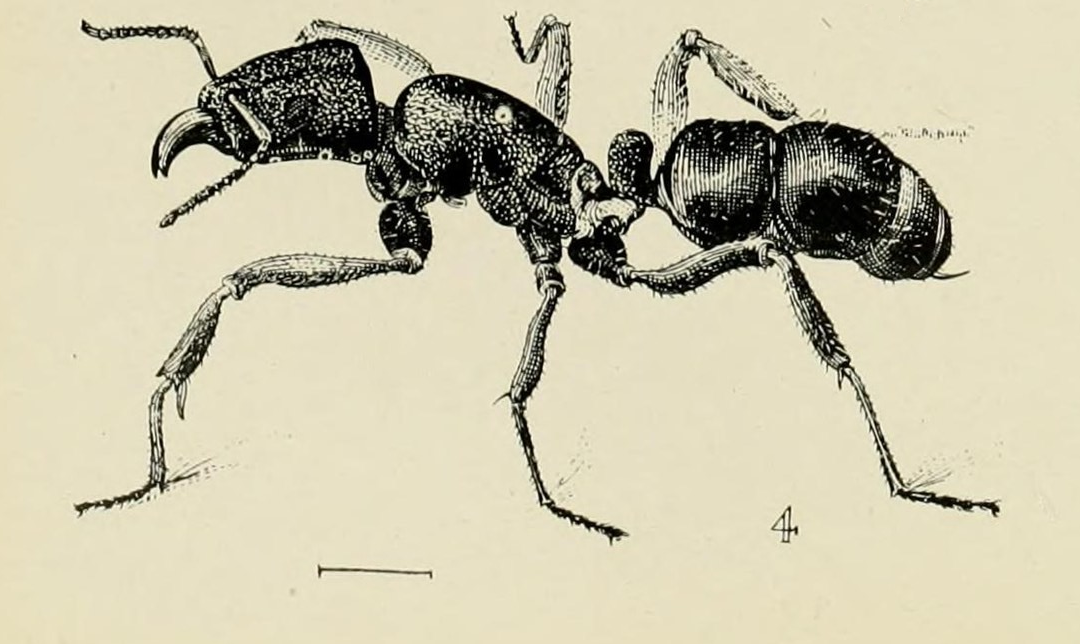 Plate Xll'.—HYMEXOPTERA. In Australian Insects by W.W. Froggatt, published in 1907. Image has been slightly modified to remove external features on other ants. Derives from this image.